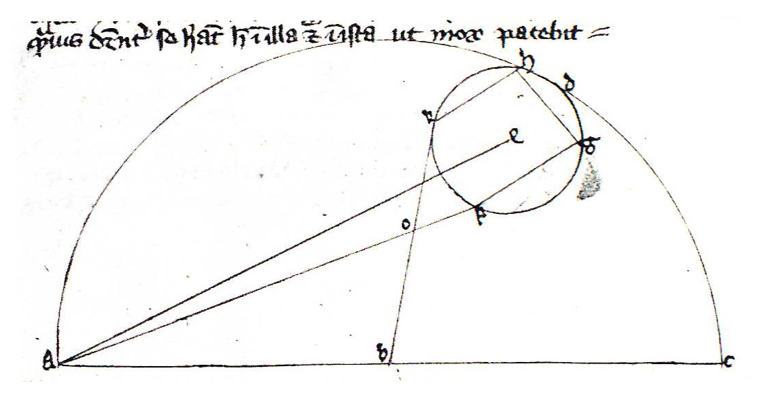 Theodoric of Freiberg: De Iride III,2,5. In: Manuscript Basel F. IV.30, f. 38r.